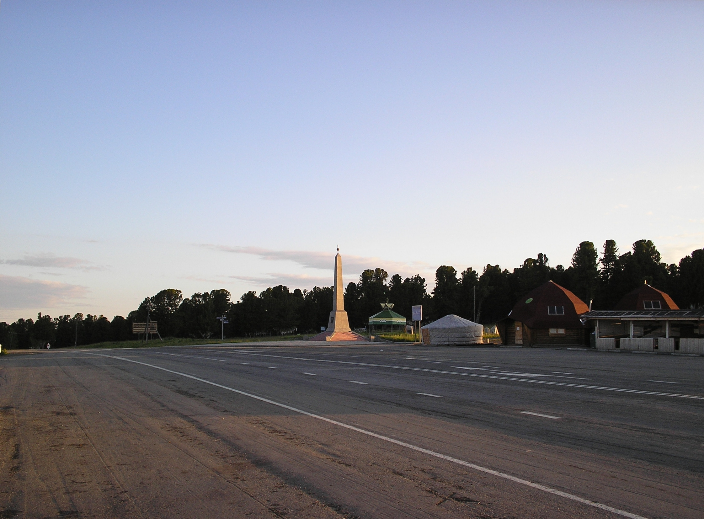 Seminsky Pass (Ongudaysky District, Altai Republic, Russia)